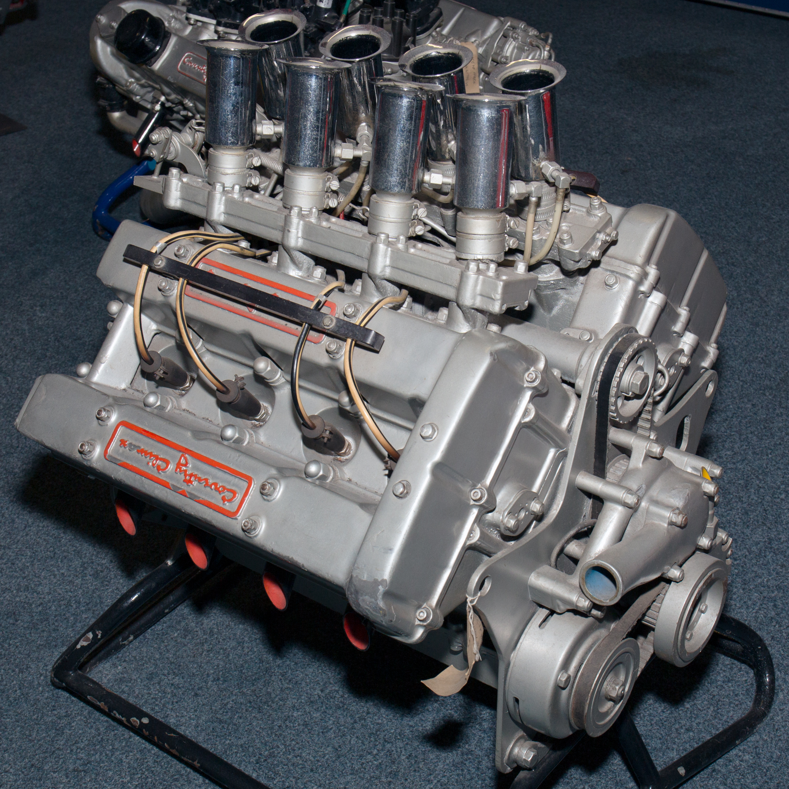 Coventry Climax FWMV 1.5 litre engine